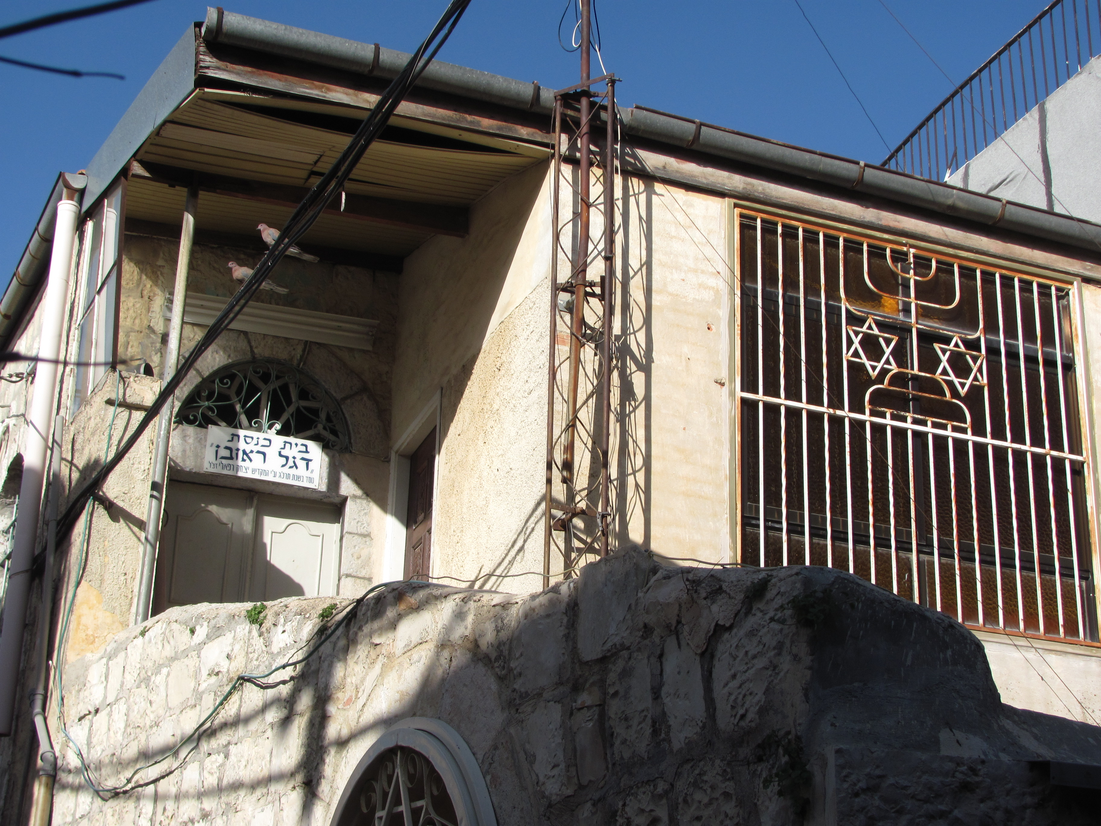 Degel Reuven Synagogue, established 1893 in the Mahane Yehuda neighborhood of Jerusalem, Israel.